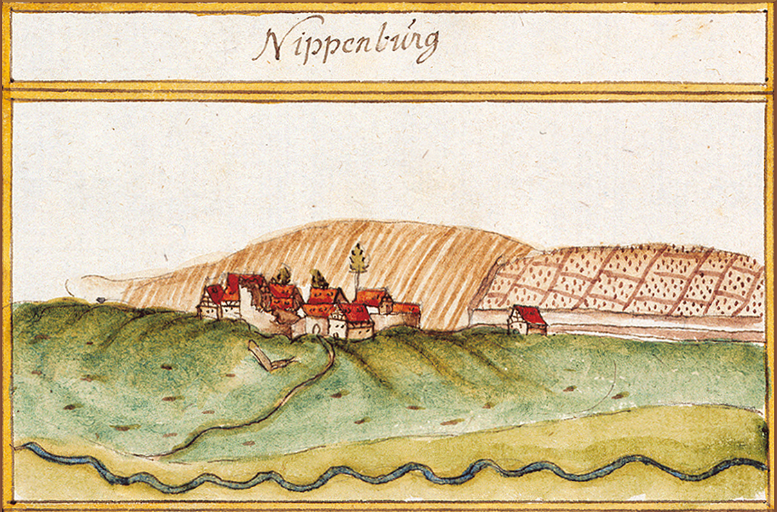 View of Nippenburg, Schwieberdingen, from the forest register books created by Andreas Kieser